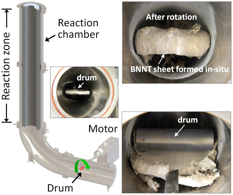 Direct fabrication of BNNT sheets from the synthesis rector. (a) Schematic drawing of a direct fabrication apparatus. A cylindrical drum used in this work is shown in the inset. (b), (c) Photographs of as-produced BNNT sheet formed in-situ during the BNNT synthesis.